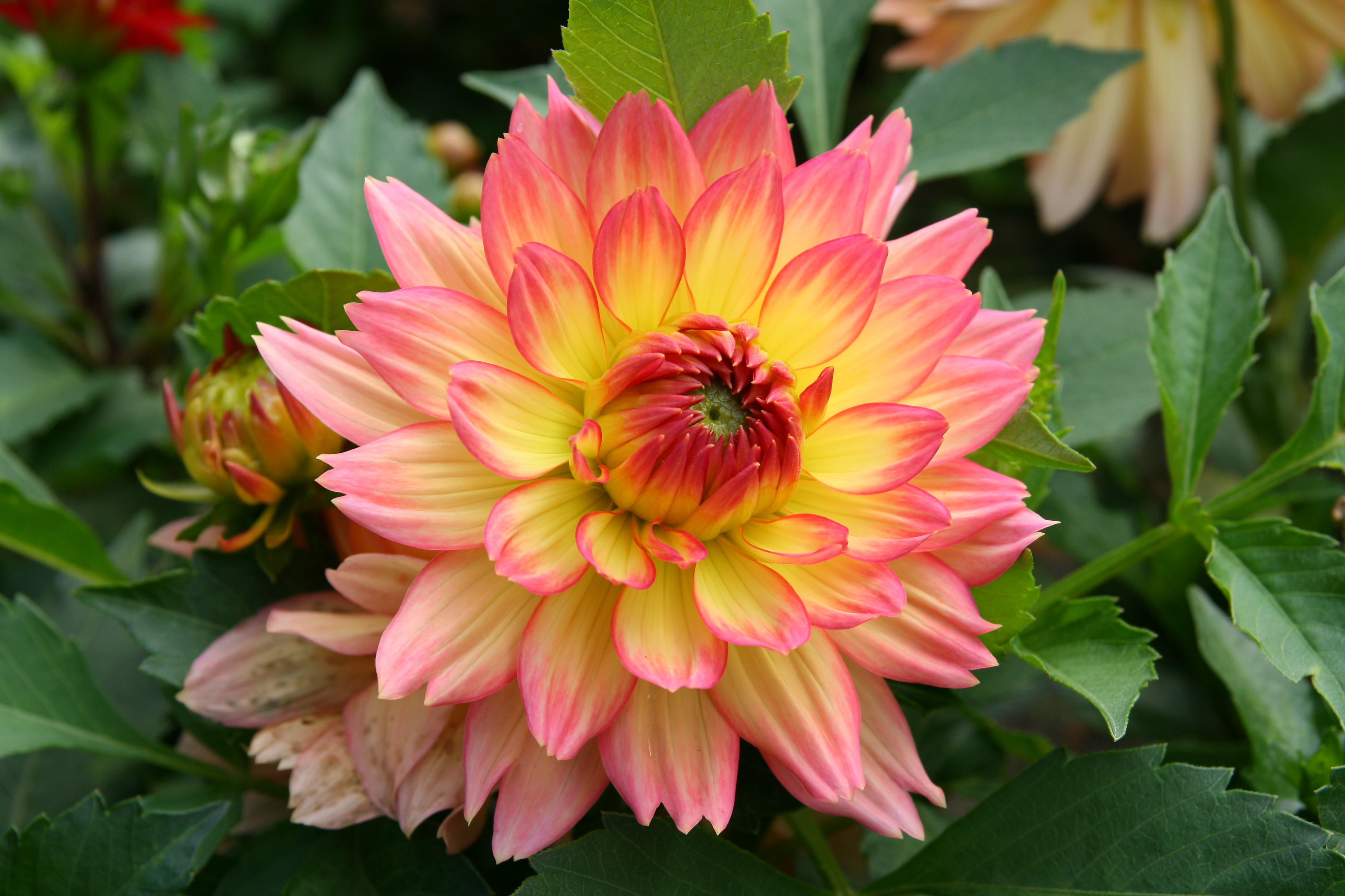 Dahlia 'Graceland'.